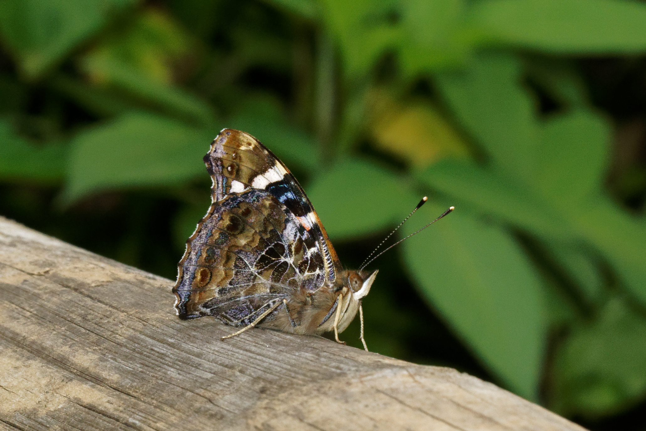 Vanessa indica, Indian Red Admiral, is a butterfly found in the higher altitude regions of India. Males commonly imbibe mineralised moisture from damp ground, and also visit dung or decomposing fallen fruit. Females are more commonly observed when nectaring, and favour taller flowers.